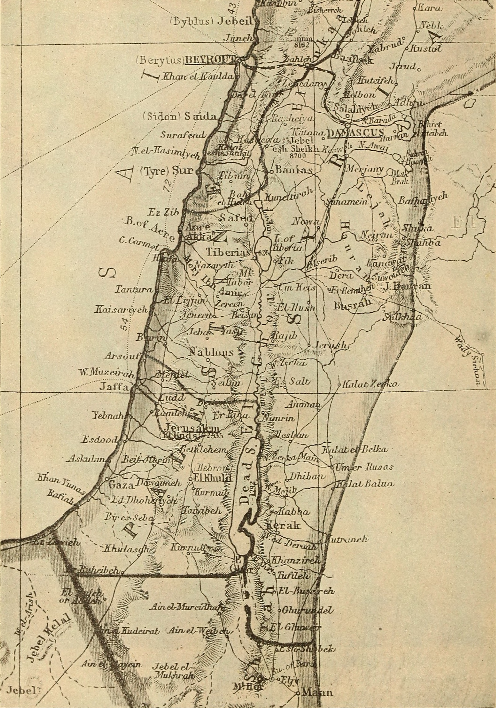 Title: Agricultural and botanical explorations in Palestine Year: 1910 (1910s) Authors: Aaronsohn, Aaron, 1876-1919; United States. Department of Agriculture; United States. Bureau of Plant Industry; United States. Government Printing Office Subjects: Agriculture; Botany Publisher: Washington, Govt. Print. Off. Text Appearing Before Image: 10 AGRICULTURAL AND BOTANICAL EXPLORATIONS IN PALESTINE. GEOLOGICAL FORMATIONS OF PALESTINE. Geologically the Paleozoic age in Palestine is represented in the extreme southeast by granite and gneiss; the Secondary formations Text Appearing After Image: Fig. 2.—Map of Palestine, showing the location of the principal towns and villages. appear in the extreme northeast in the Jurassic, and the Cretaceous is found everywhere in the form of sandstone, hard limestone, and 180